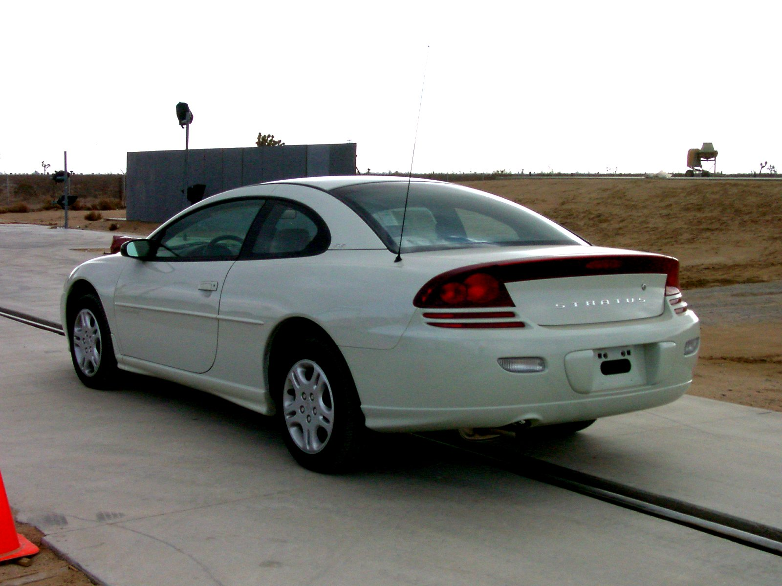 2001 Dodge Stratus SE coupe, photographed in USA.